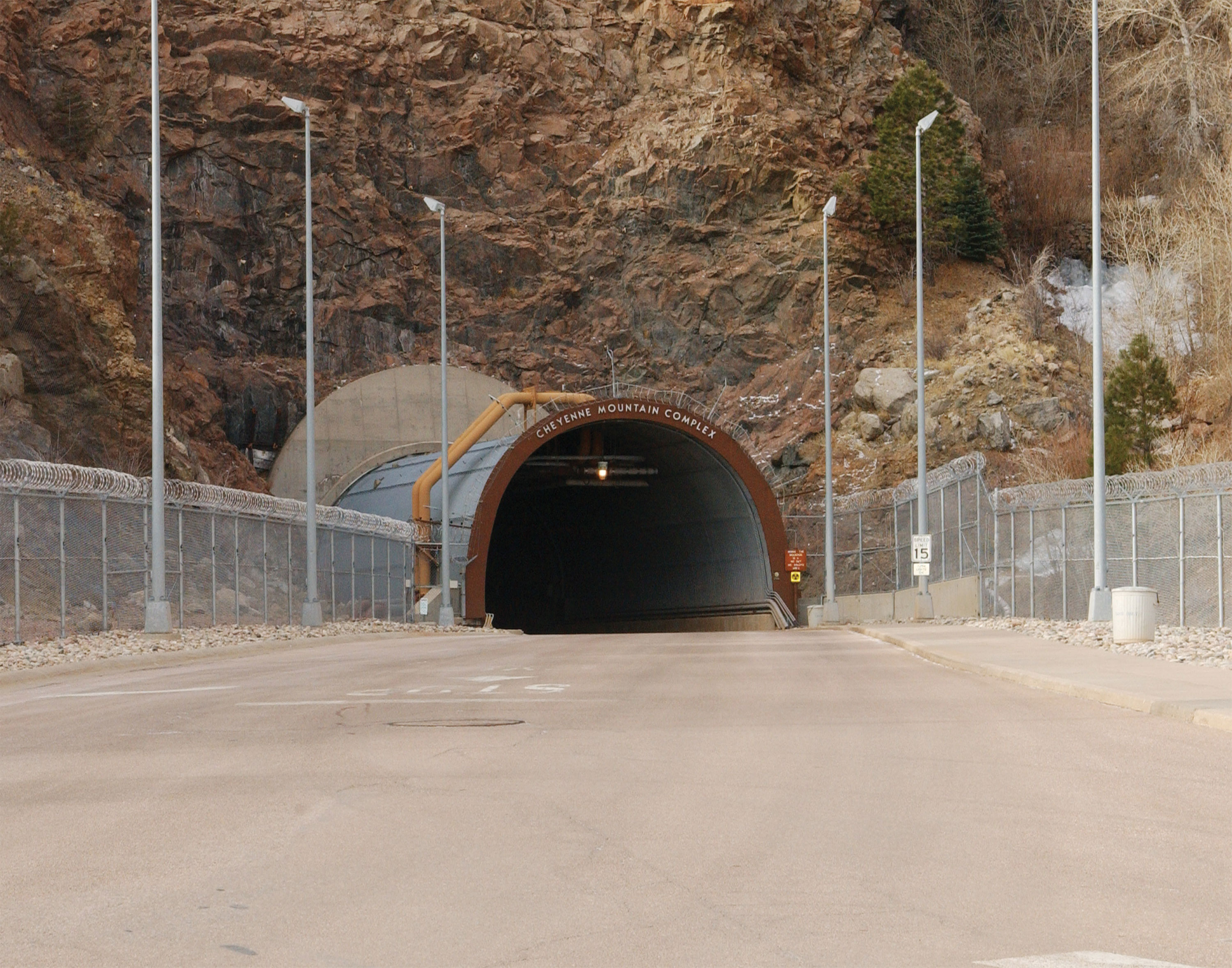 Photo of the North Portal entrance to Cheyenne Mountain